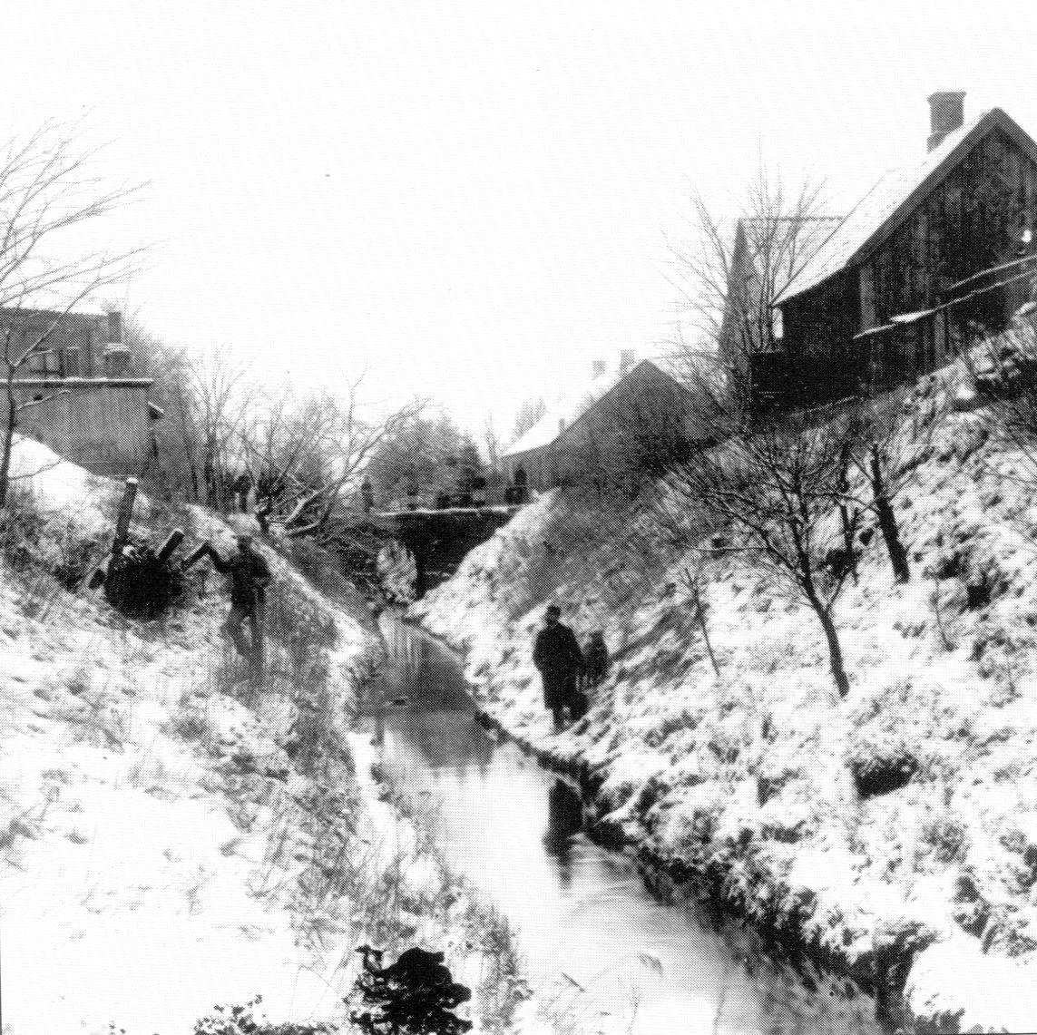 The canal in Höganäs in the 1910s.